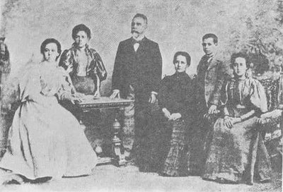 Campos Sales, former president of Brazil, and his family.